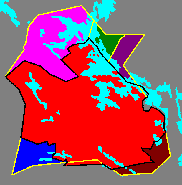 Vesilahti. Areal Changes 1906-1964.